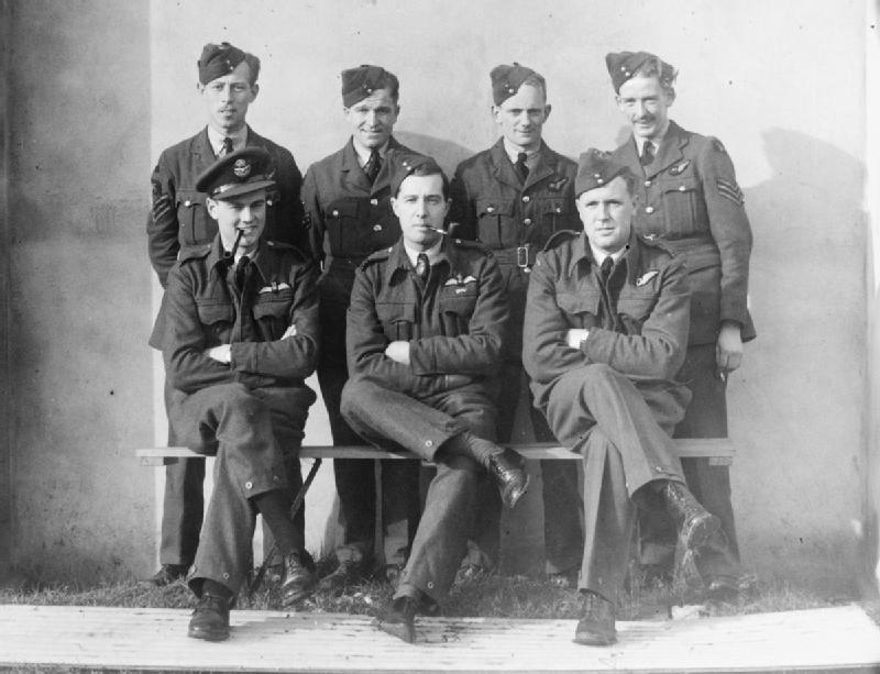 Royal Air Force Coastal Command, 1939-1945. Flight-Lieutenant T M Bulloch of No. 120 Squadron RAF, a successful anti-submarine pilot, with six of the crew of his Consolidated Liberator, probably taken at Nutt's Corner, County Antrim. They are, seated (left to right): Pilot Officer M F Dear (2nd pilot), Flight Lieutenant Bulloch (pilot and Captain), and Pilot Officer M B Neville (navigator); standing (left to right): Sergeant F N Hollies, Sergeant J W Turner, Sergeant G Millar and Sergeant R McColl.